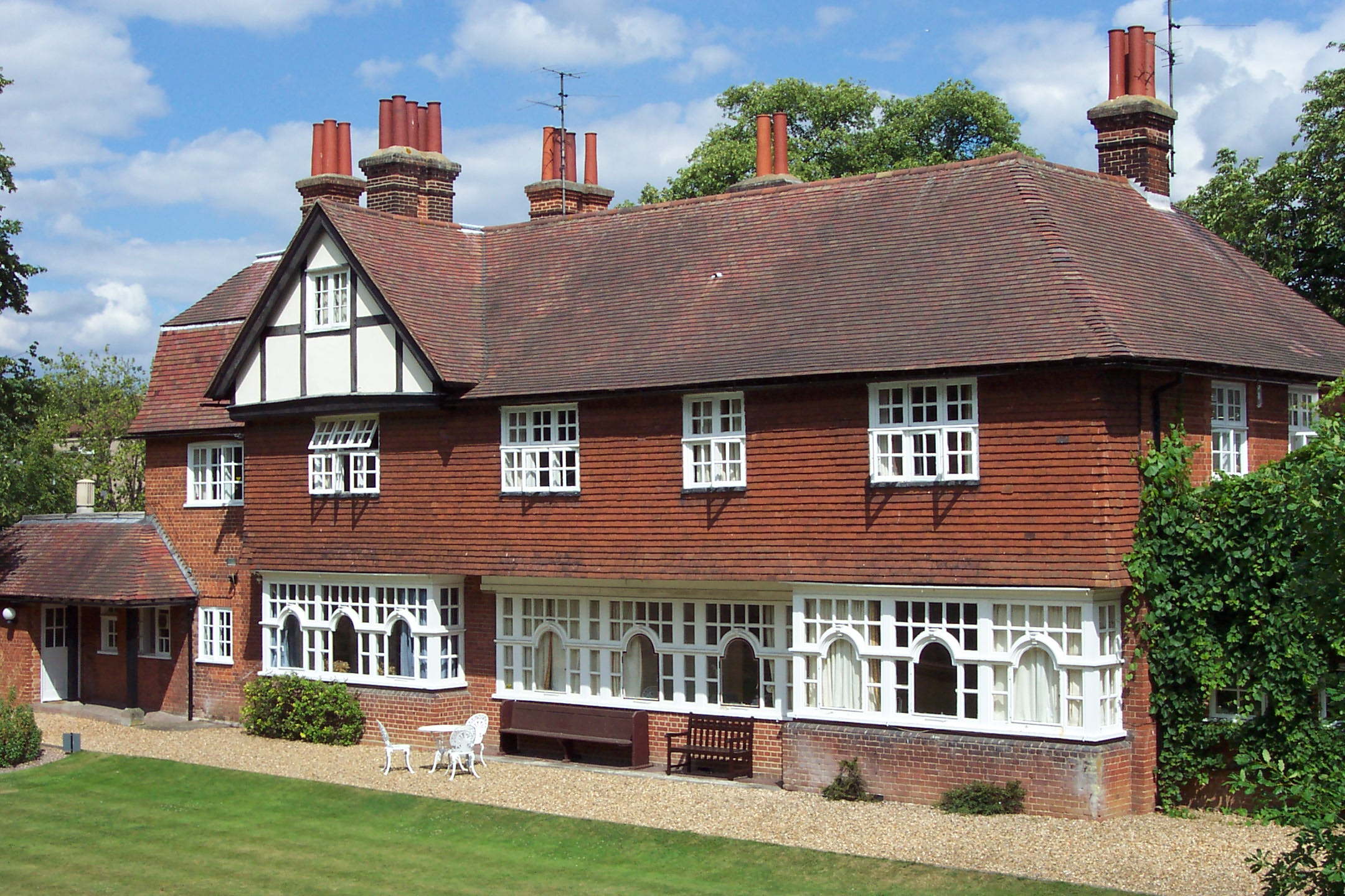 This is a photograph of Elmside House that I took while living there. Part of Clare Hall, a college of the University of Cambridge, UK (additional description by JackyR)